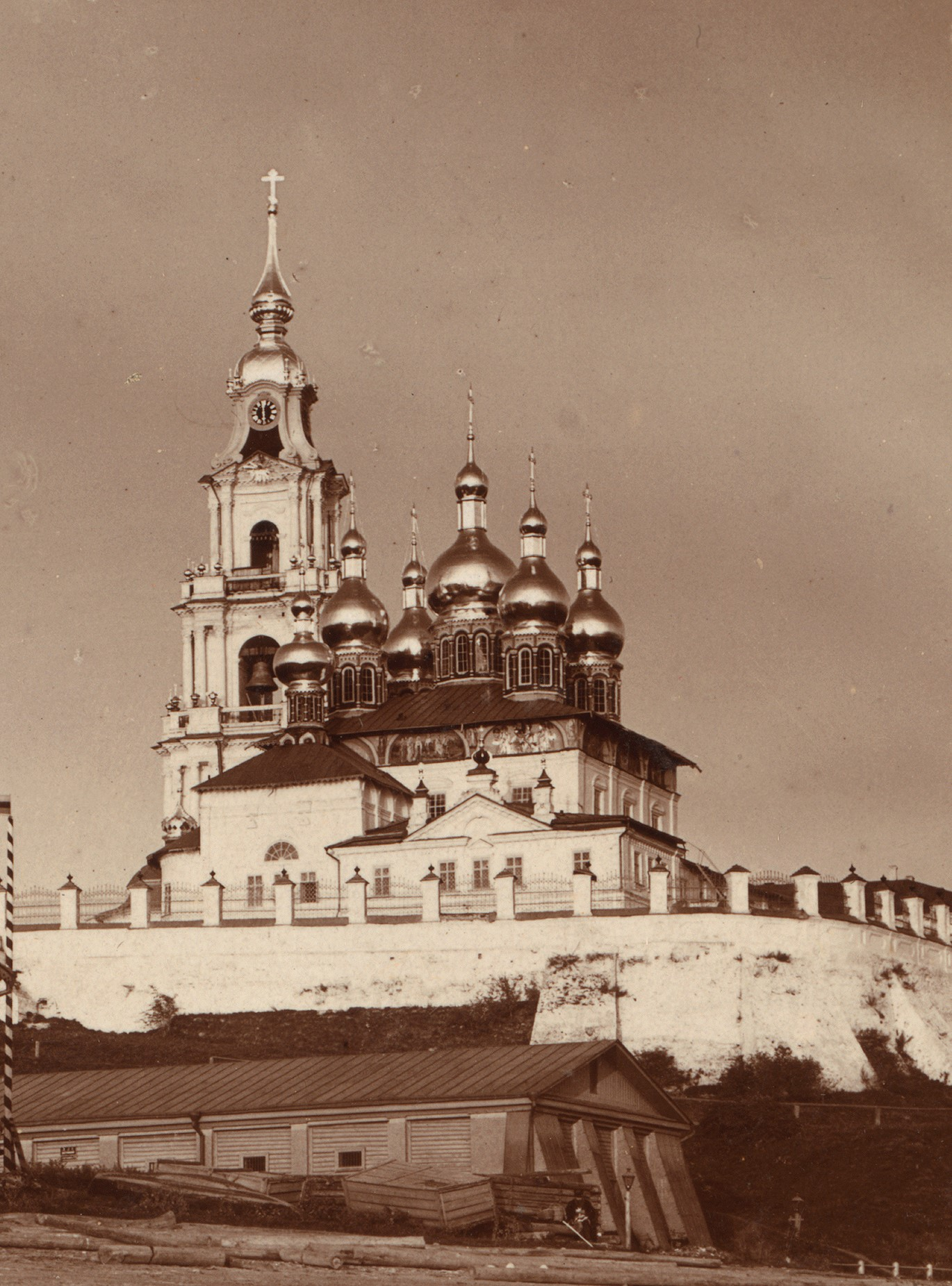 Dormition Cathedral in Kostroma